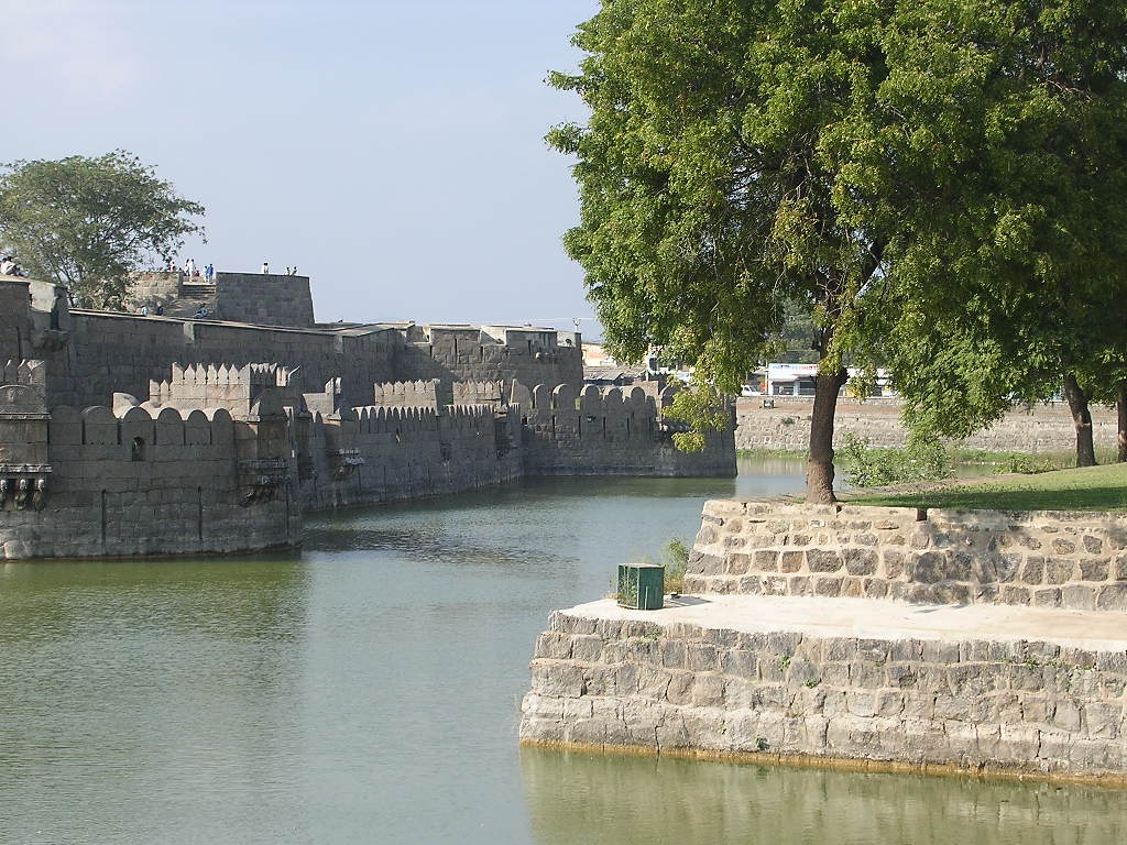 The outer ramparts and moat of Vellore Fort